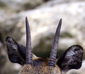 Horns of a klipspringer, Brevard Zoo, Melbourne, Florida, USA